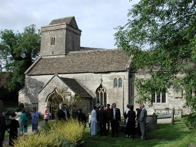 Parish church of St Mary the Blesséd Virgin, Upper Swainswick, Somerset, seen from south-southeast